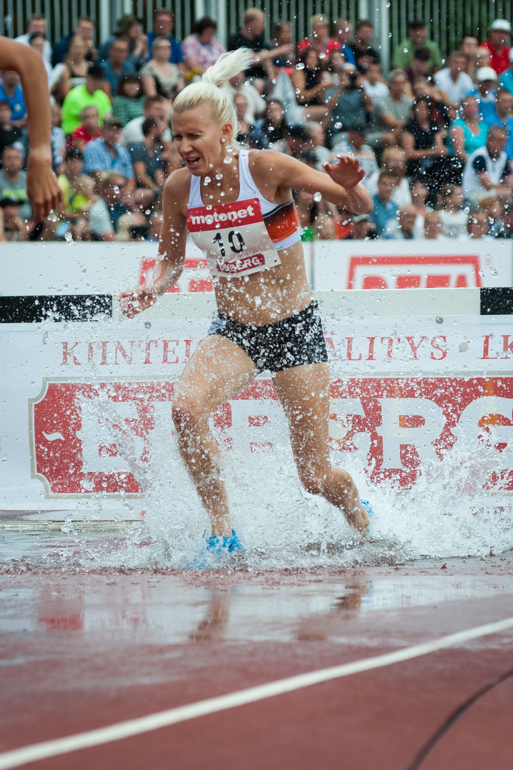 Women's 3000 m steeplechase competition at the 2018 Kalevan Kisat, the Finnish championships in athletics, in Jyväskylä, Finland.